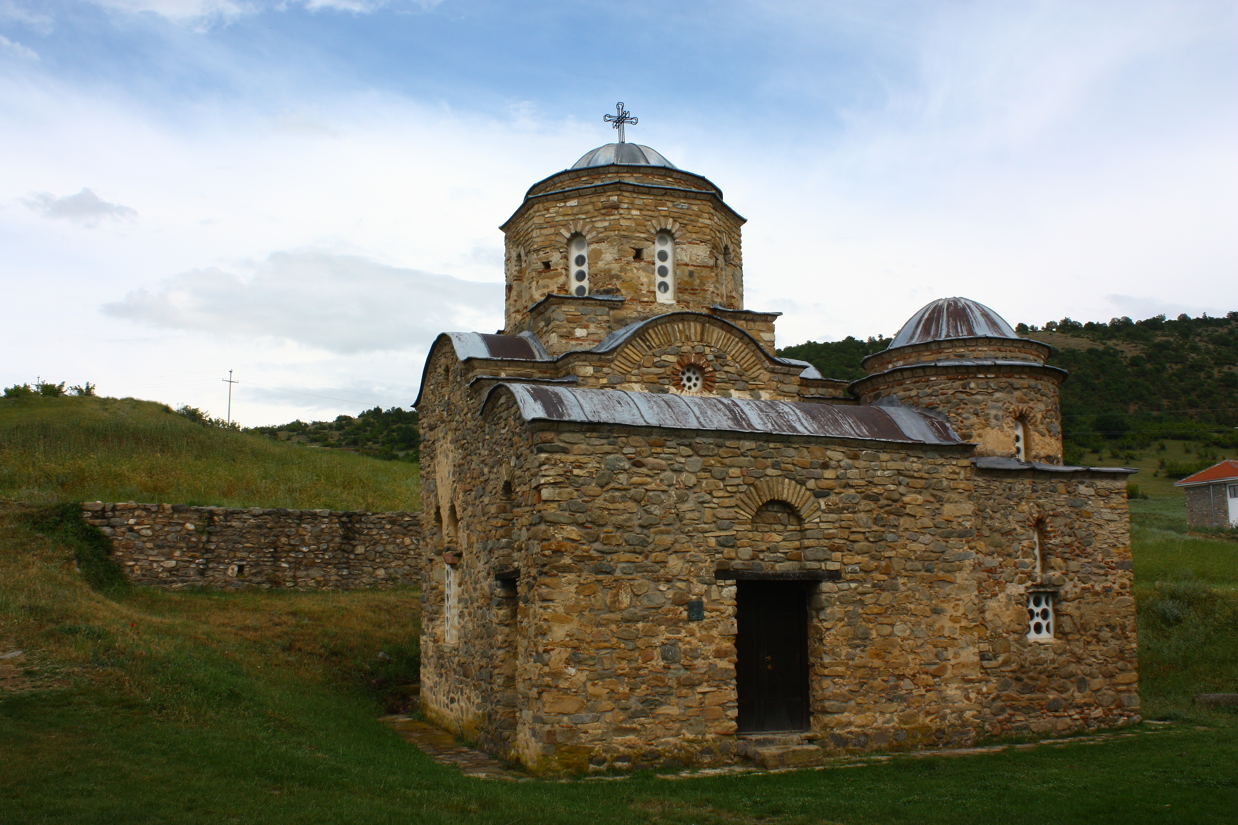 St. George's Church near village of Kozjak, Štip, Macedonia